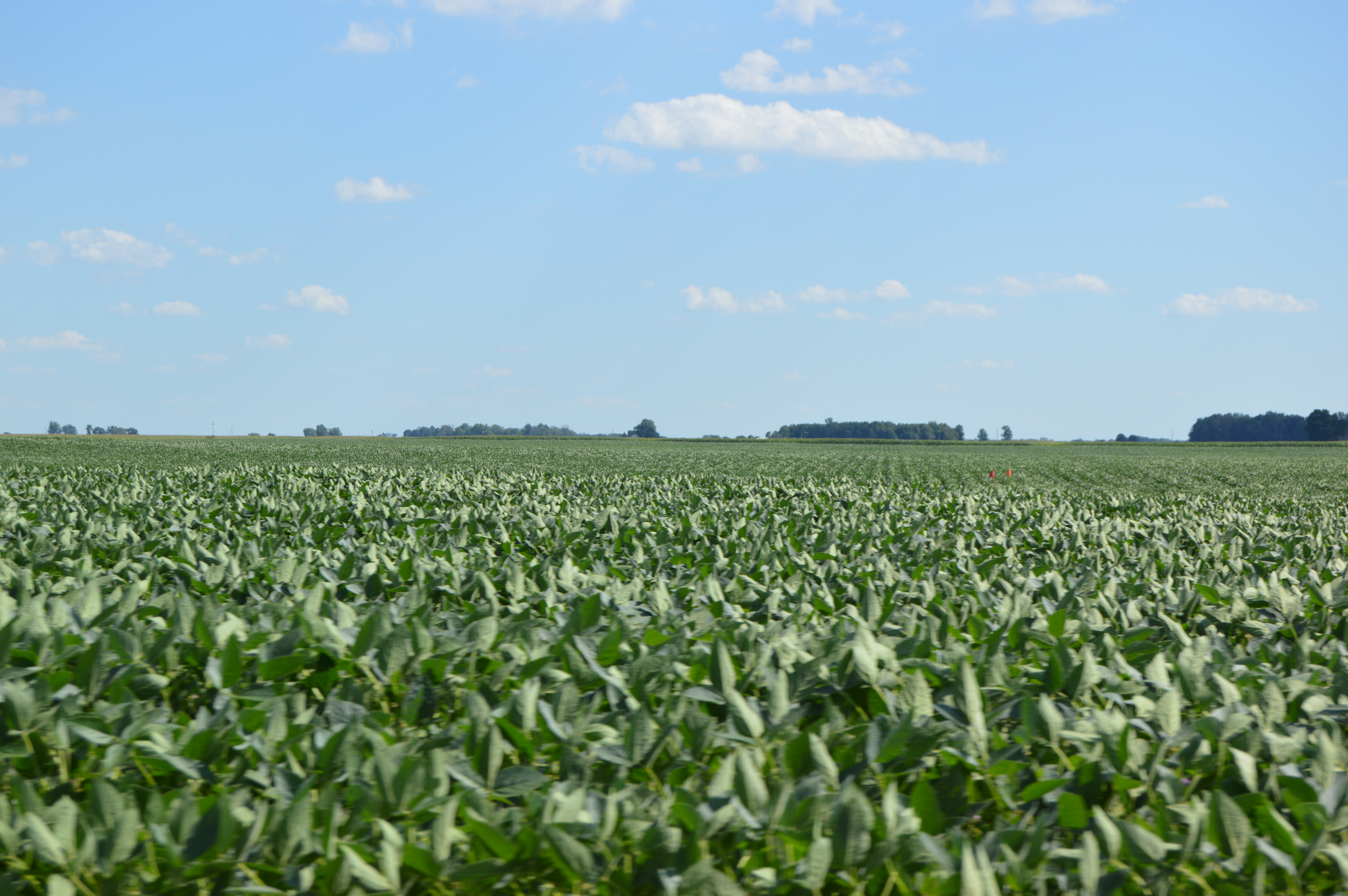 Cornfields in eastern Carrollton Township, Carroll County, Indiana, United States, seen looking south from Division Line Road southeast of Sharon.